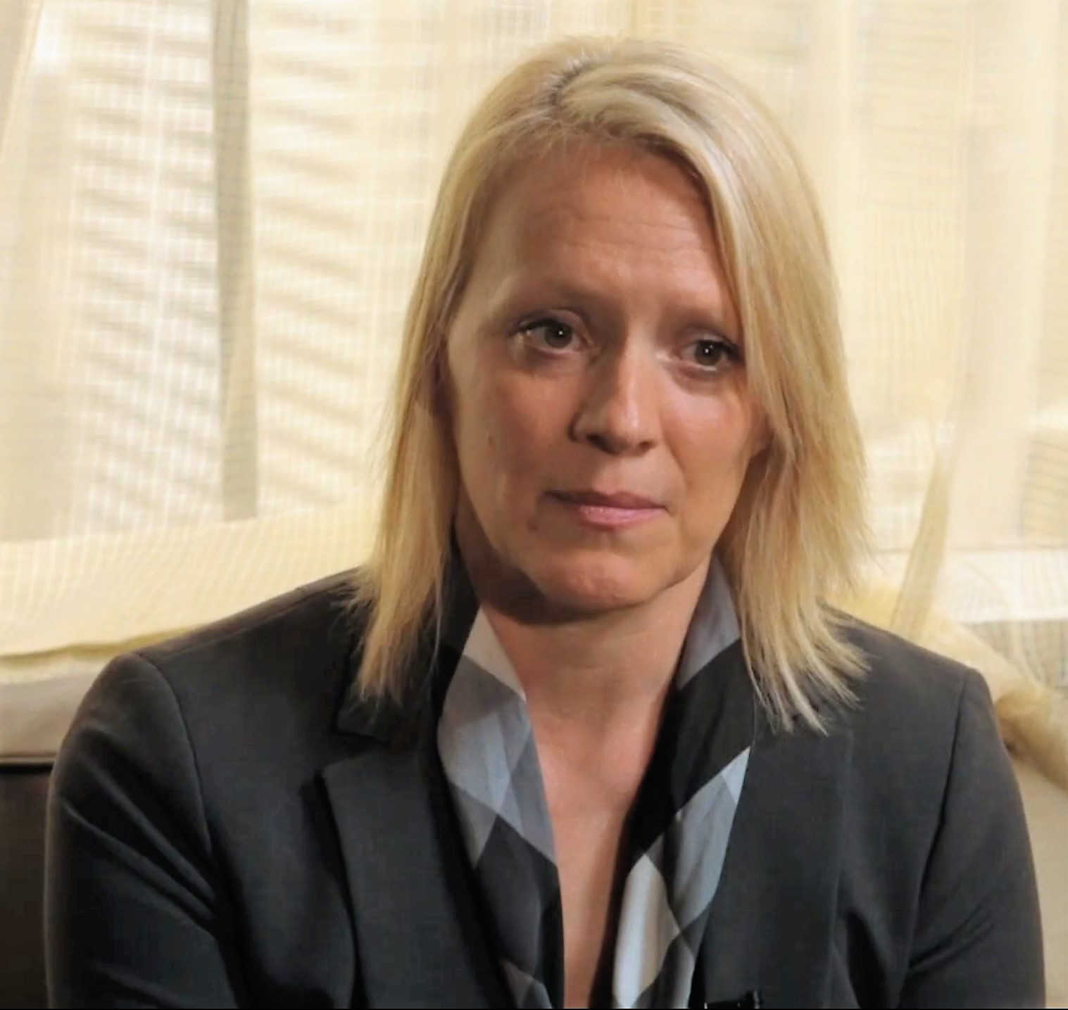 Erin Kimmerle, Forensic Anthropologist, University of South Florida, speaks on the impact of National Institute of Justice’s "Solving Cold Cases with DNA" Program.